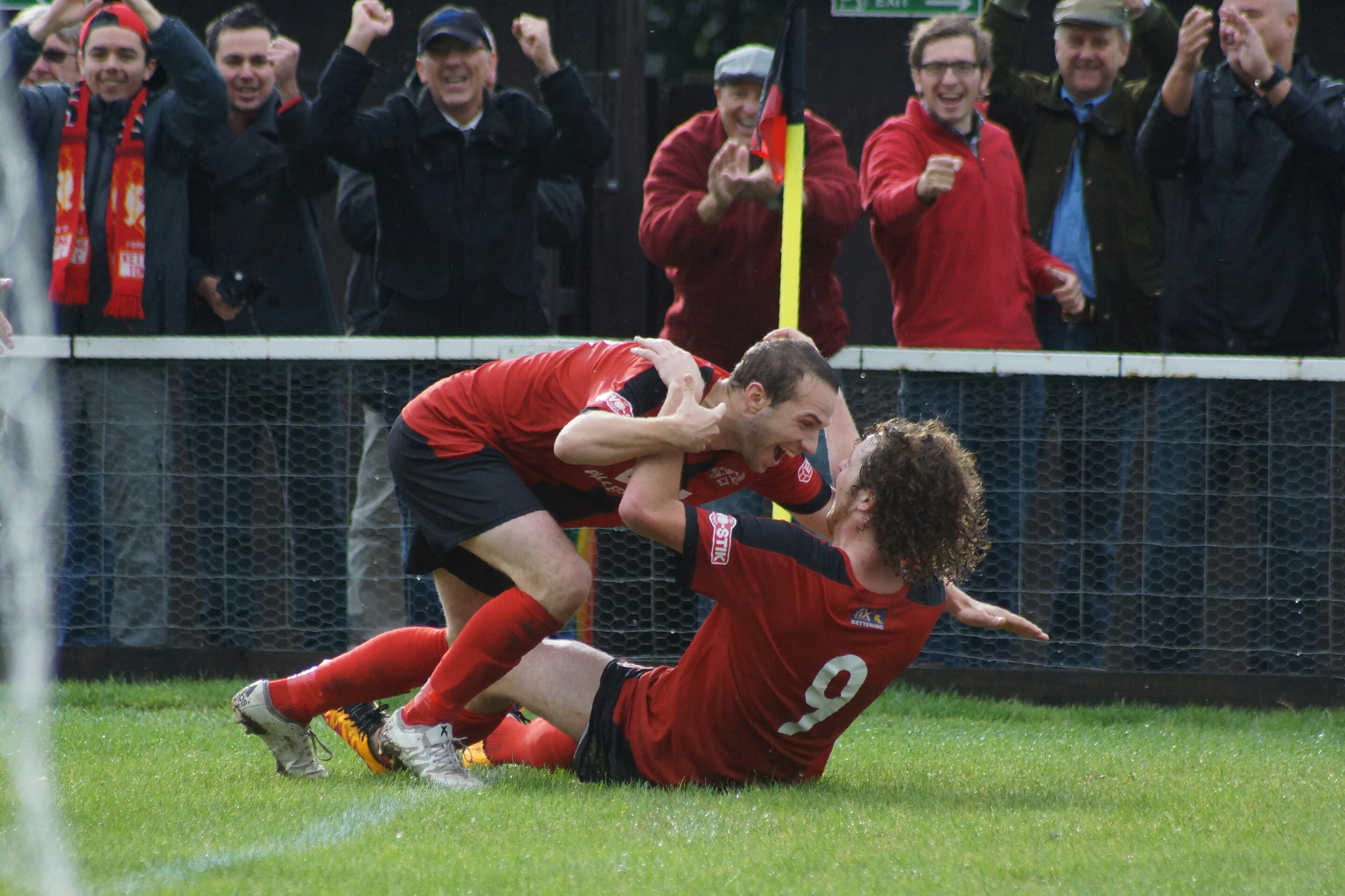 James Brighton celebrates with Liam Canvan who scores Kettering Town's 867th goal in the competition against Boston United